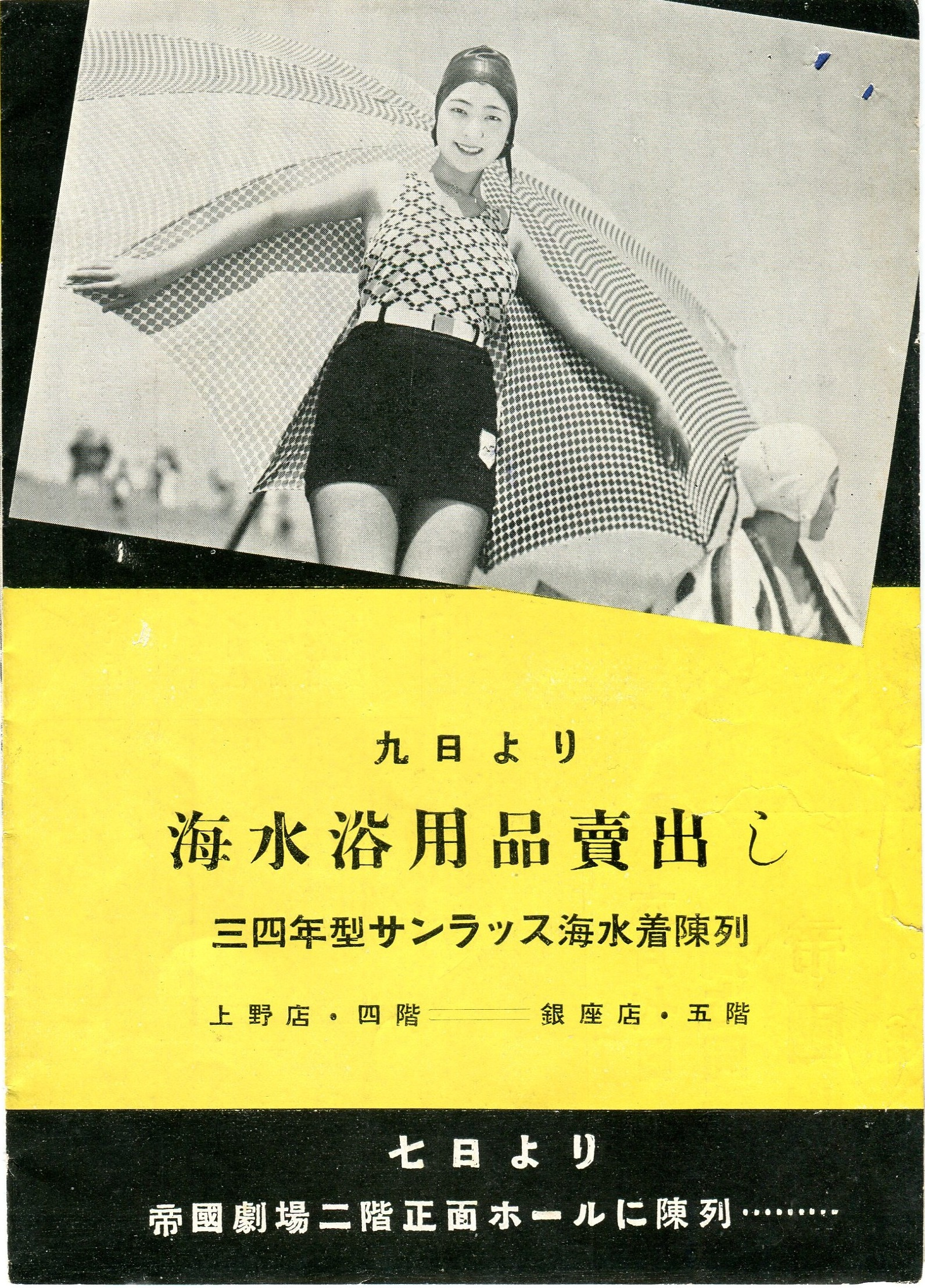 Portrait of the actress Sanae Takasugi(1934)